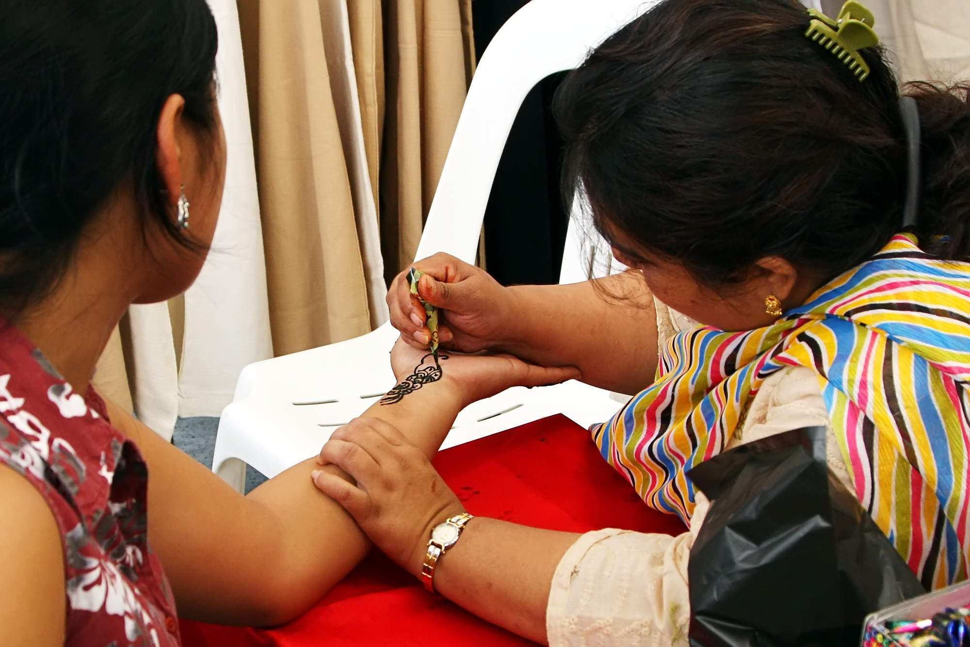 Application of Mehndi, Little India, Singapore